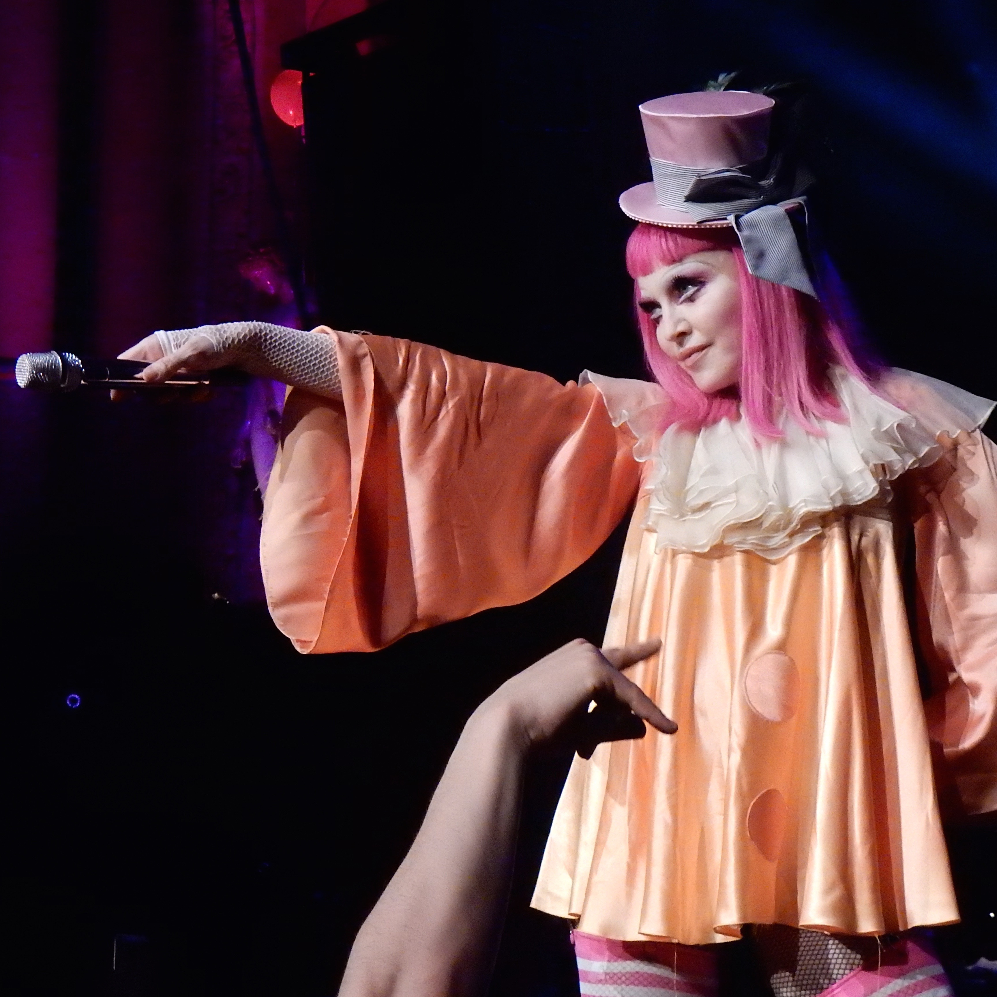 Special fan only show at The Forum, Melbourne, 10 March 2016